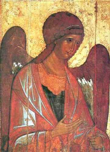 Archangel Michael, Byzantine icon